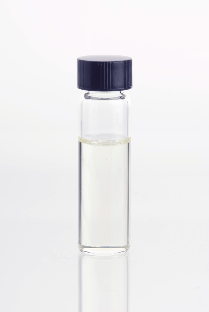 Glass vial containing Lavendin Essential Oils